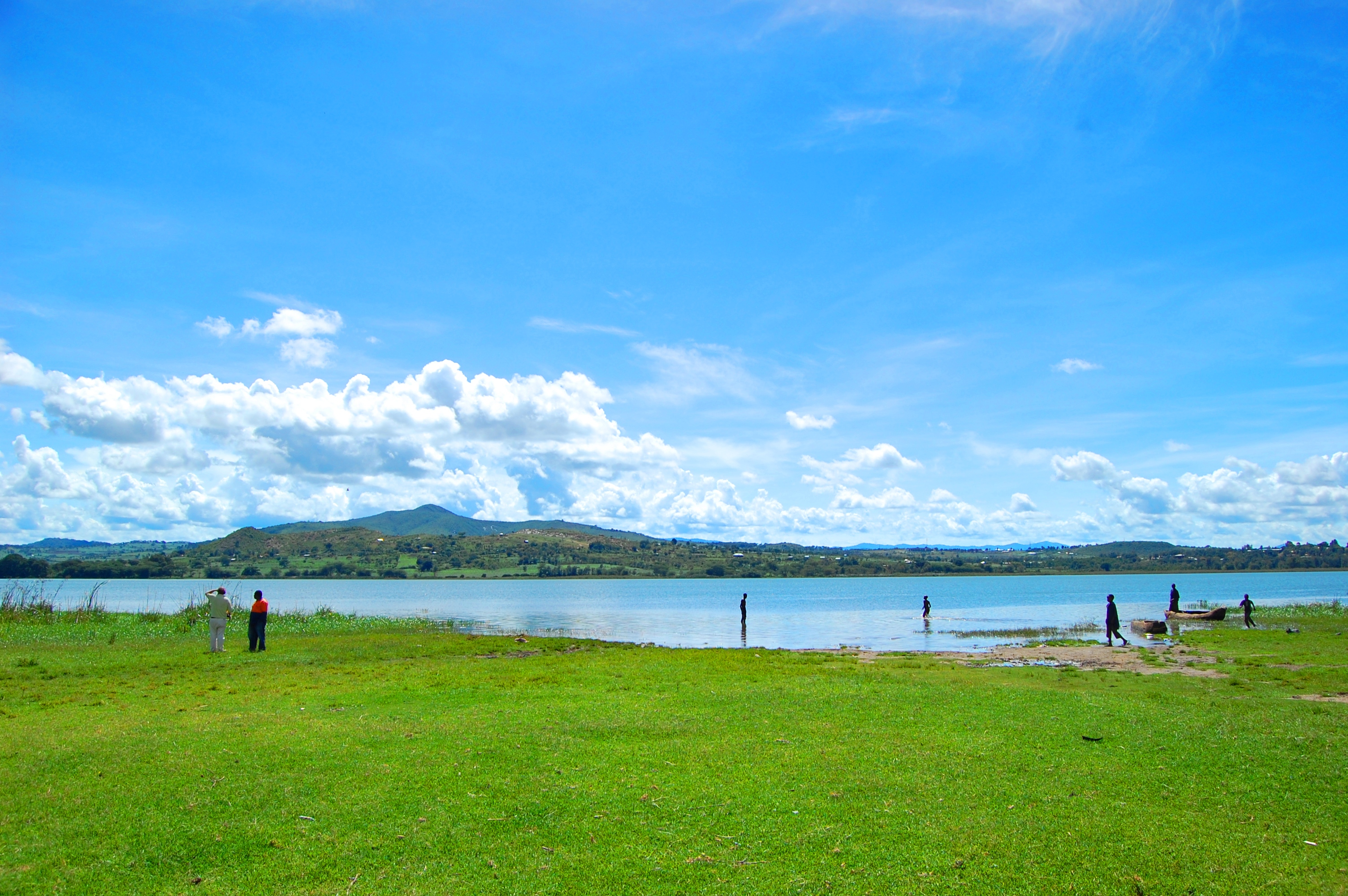 Lake Babati, Tanzania, Manyara Region